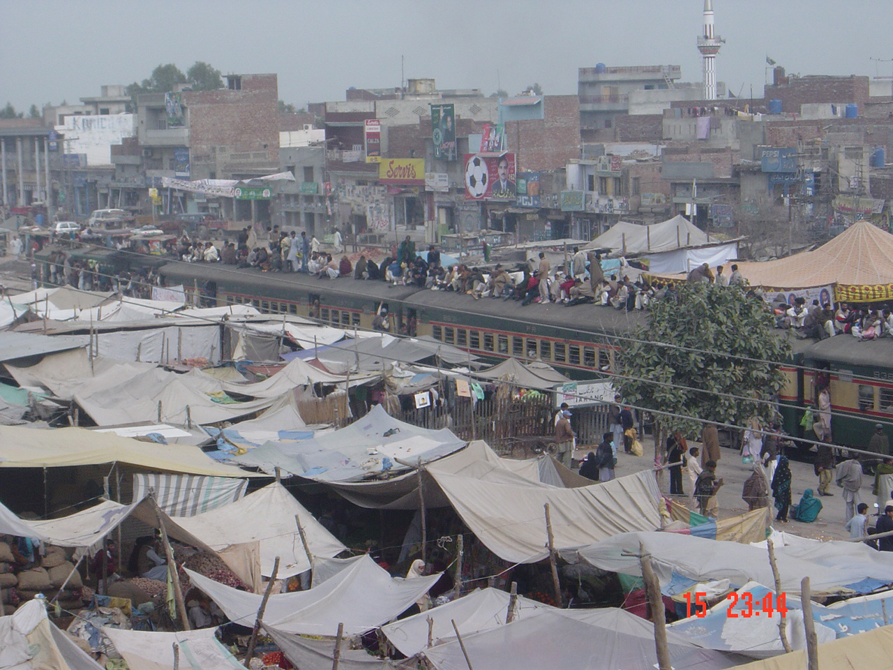 An aerial view of fruit mandi of Narang Mandi.